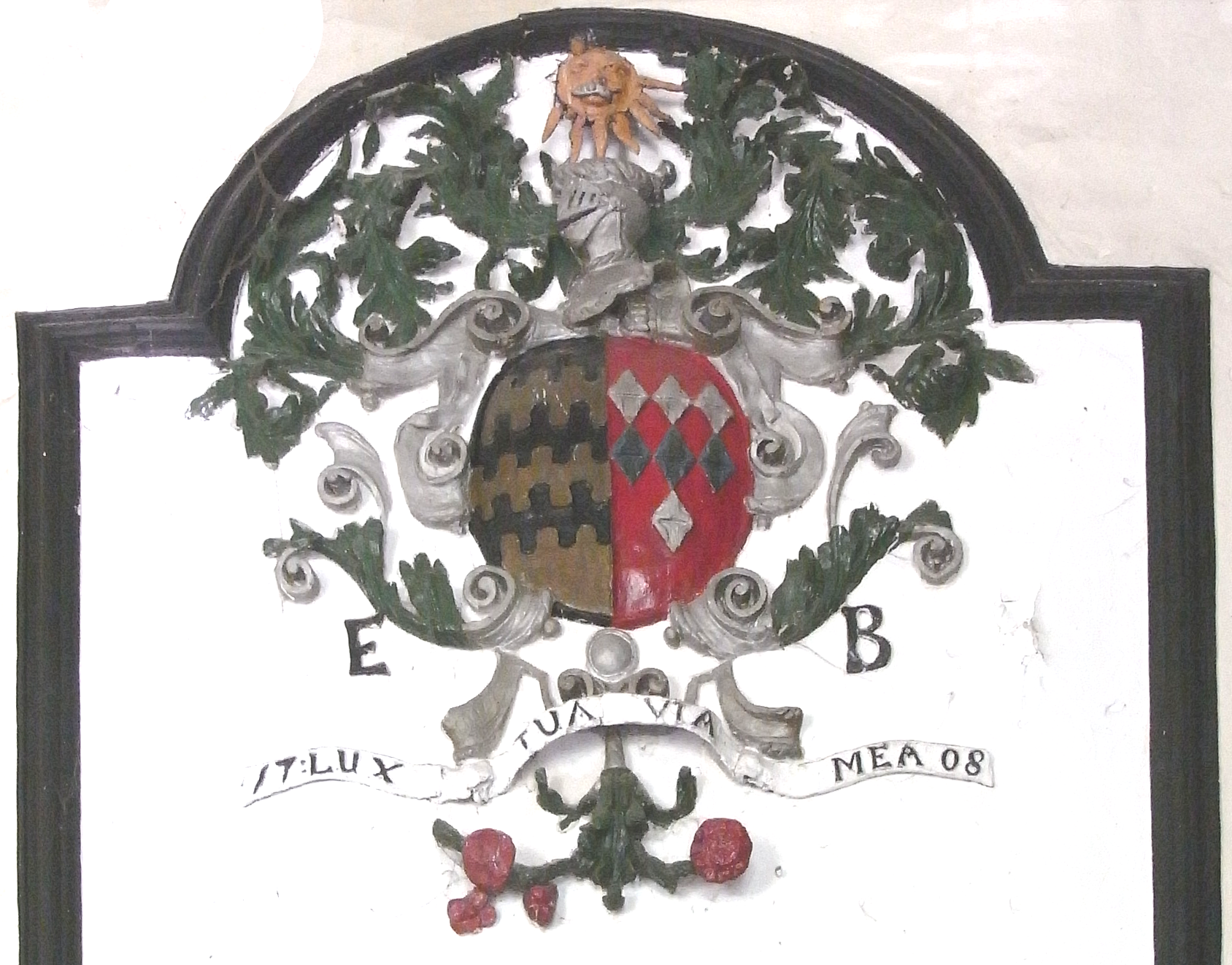 Heraldic overmantle, above fireplace of great hall, Blagdon manor house, near Paignton, Devon. (Tinctures of Giuse arms restored incorrectly) The eldest son of Mary Kirkham, heiress of Blagdon, and her husband Sir George Blount, 2nd Baronet (died 1667) was Sir Walter Kirkham Blount, 3rd Baronet (died 1717), who inherited his paternal estates, including Sodington. Her 3rd son was Edward Blount (d.1726) of Blagdon, who inherited his maternal estates. In 1708 Edward Blount married Anne Guise, a daughter of Sir John Guise, 2nd Baronet (c. 1654–1695) of Elmore in Gloucestershire, which marriage was commemorated by the surviving heraldic overmantel above the fireplace of the great hall of Blagdon manor house. This shows the initials "EB" [1] and displays the arms of Blount (Barry nebuly of six or and sable) impaling Gules, seven mascles vair 3,3,1 (Guise) above a scroll inscribed with a Latin motto Lux Tua Via Mea ("Your light is my path") with the date "1708". In 1727 Edward Blount's 2nd daughter Maria Blount (1701/2-1773)[2] married Edward Howard, 9th Duke of Norfolk (1686-1777), but produced no progeny and heirs to the dukedom.[3] In 1739 her eldest sister Henrietta Blount (d.1782) married (as her second husband) the 9th Duke's younger brother Philip Howard (d.1749/50), by whom she had one daughter Anne Howard (born 1742) (wife of Robert Edward, Lord Petre), who was excluded from inheriting the Dukedom of Norfolk (the premier dukedom of England) by a recent entail effected by the Act of Restoration 1664.